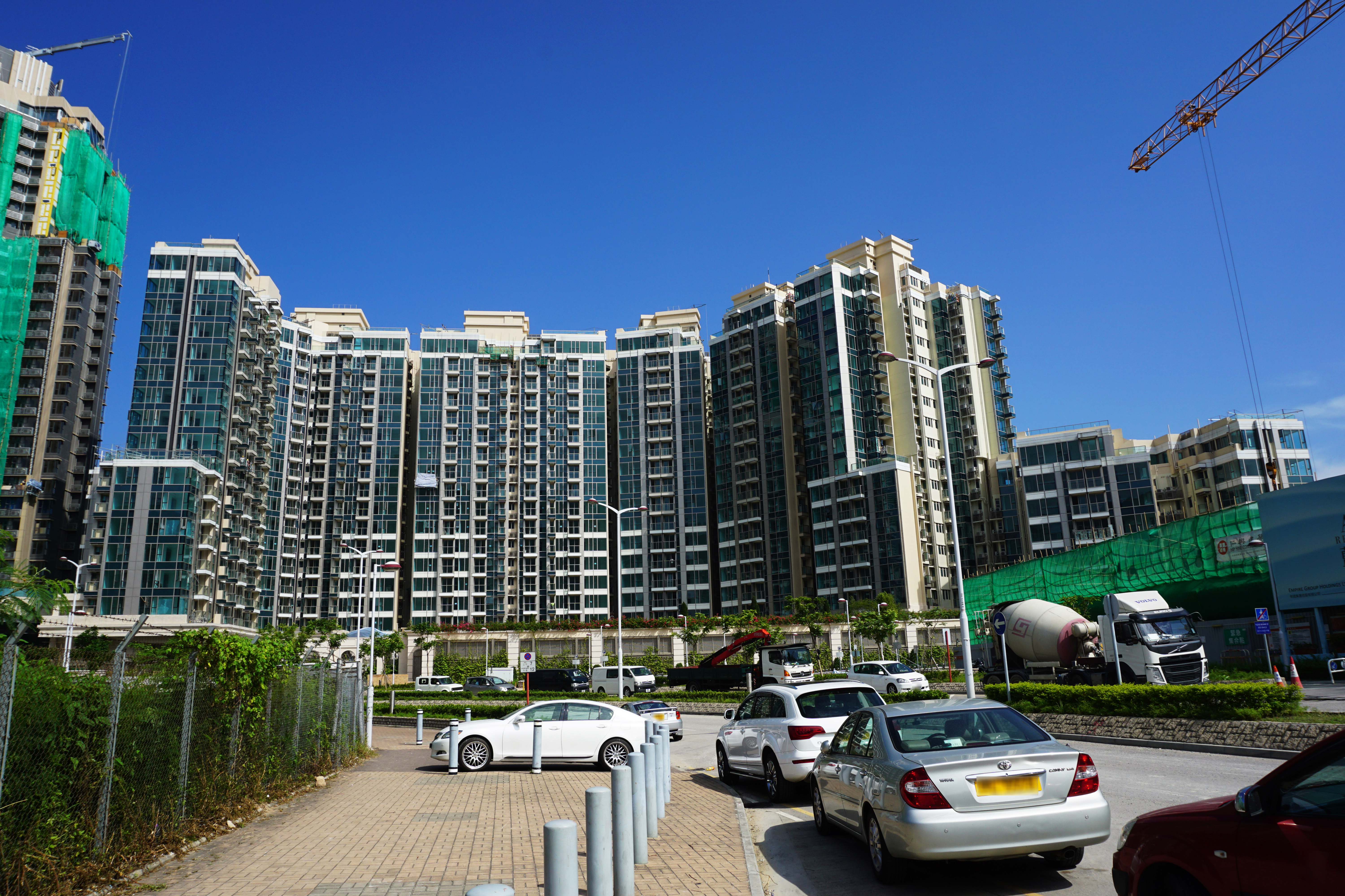 Corinthia by the Sea in Tseung Kwan O, Hong Kong.